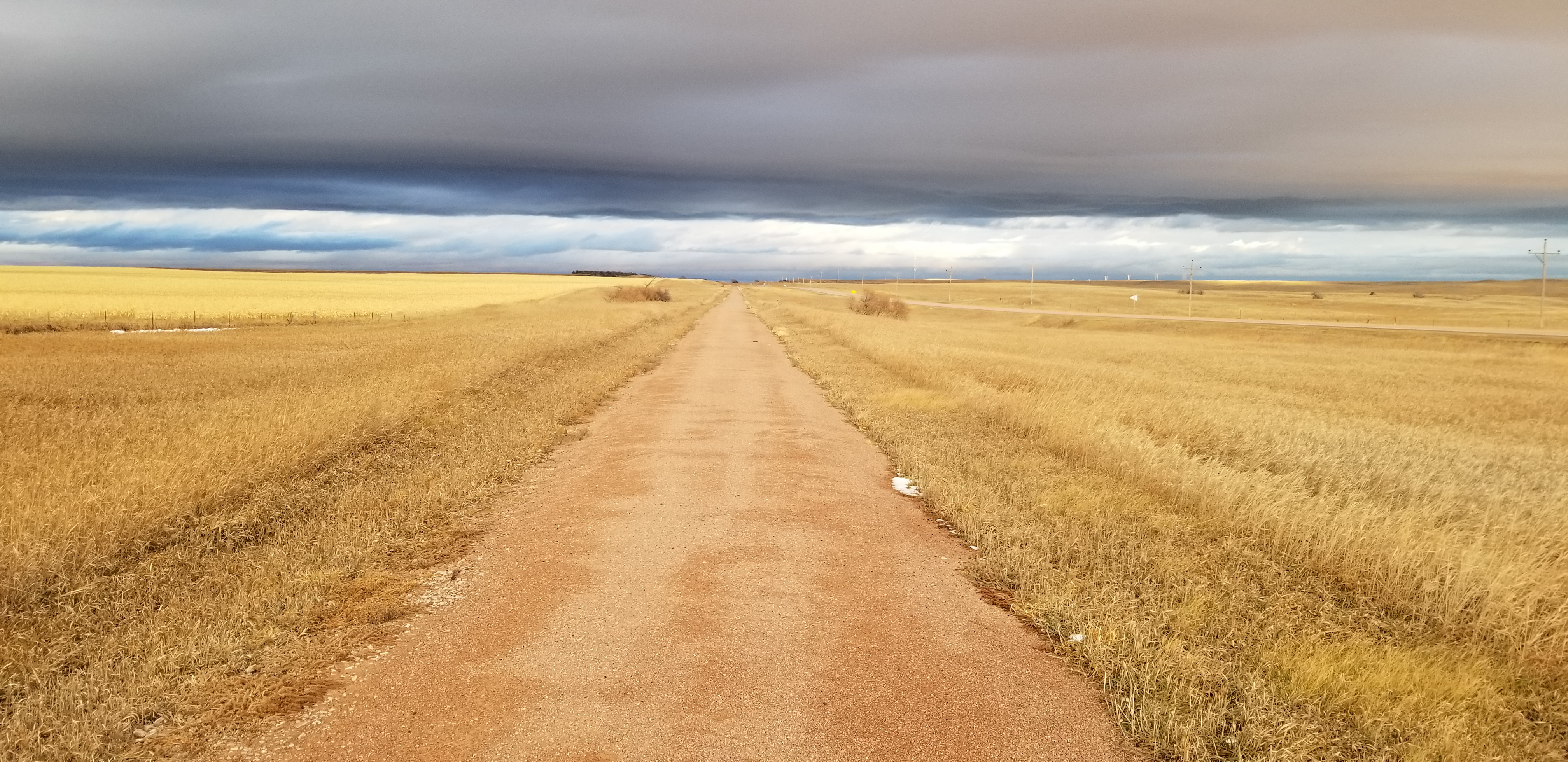 View of the newly constructed trail near Rushville, NE